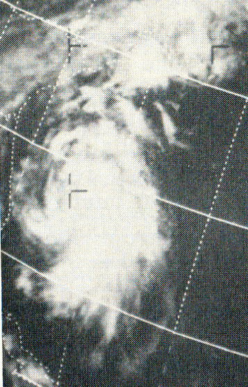 This image of Tropical Cyclone Doria was taken by the ESSA 9 weather satellite on August 26, 1971 at 1832 UTC